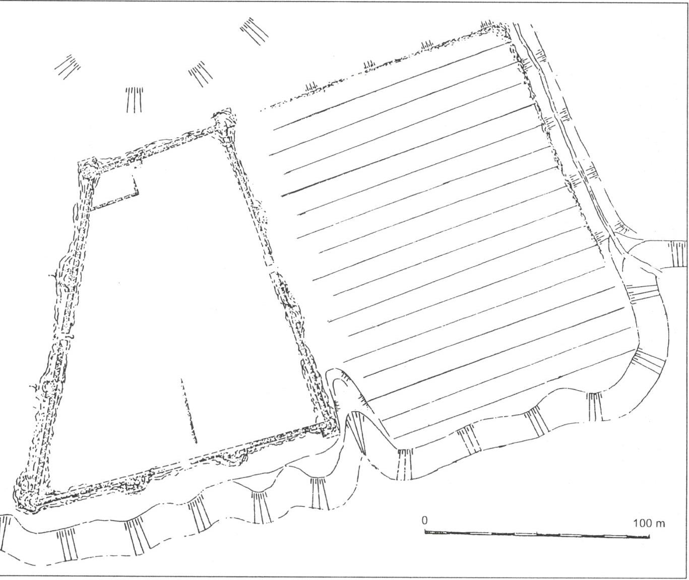 Ruins of the ancient Roman and Byzantine hamlet of Baderiana, near the village of Bader, Macedonia